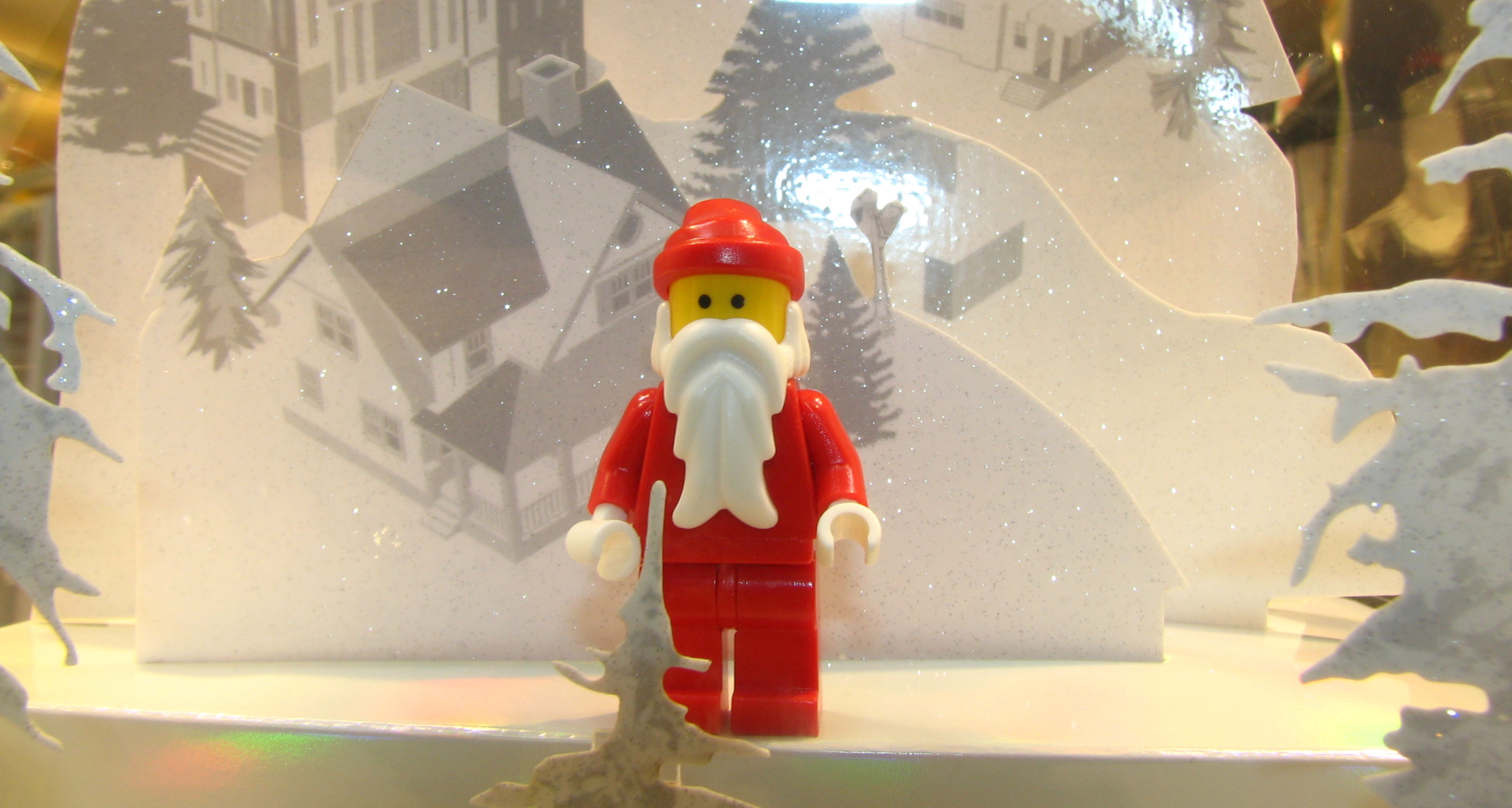 christmas, holiday, Lego, Lego store, santa, 2008-12 -- Cologne Christmas Trip